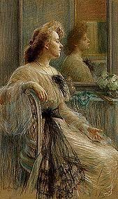 Lady by the mirror